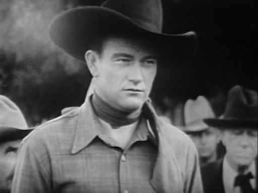 Snapshot from Riders of Destiny (1933)